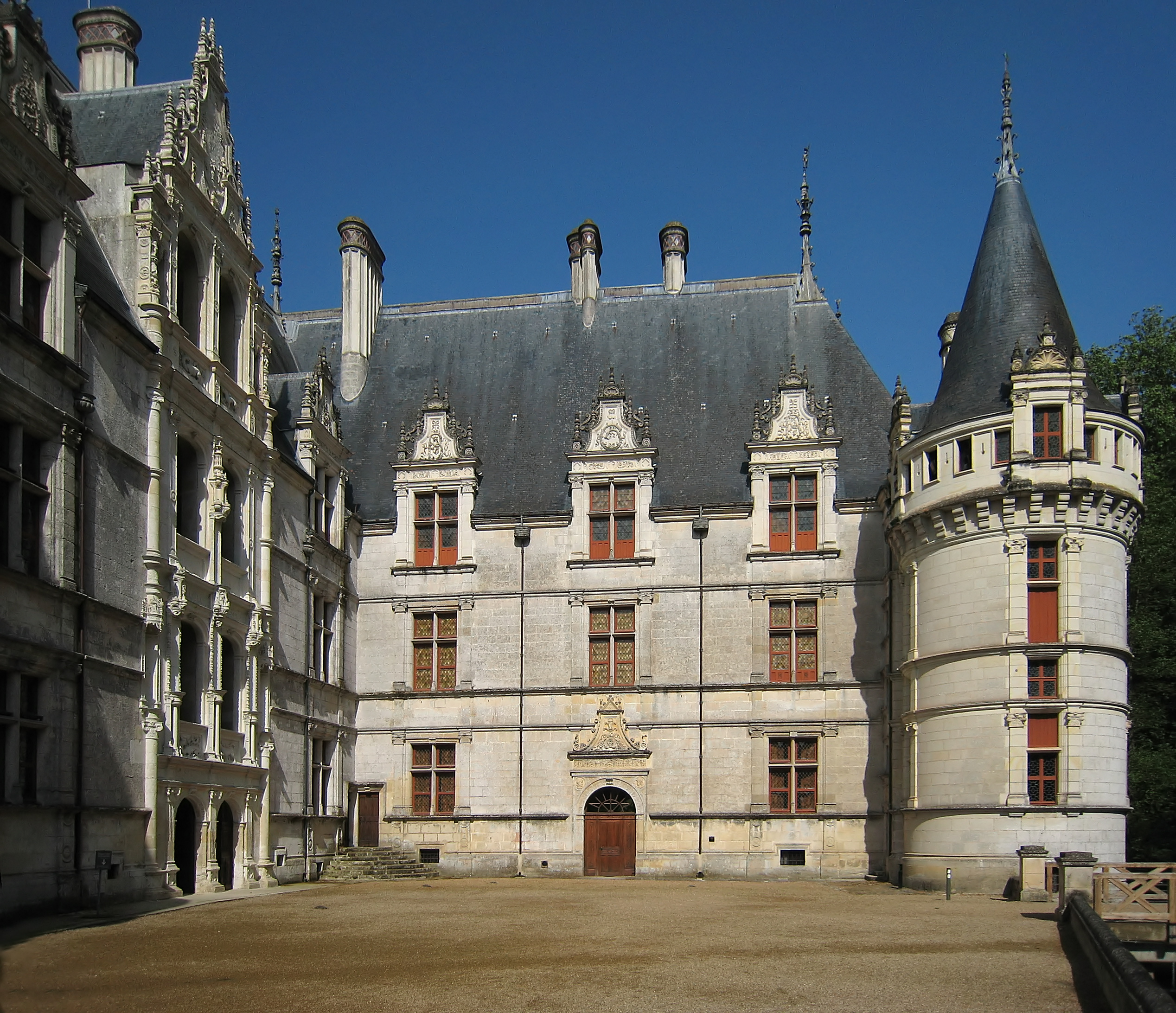 Château d'Azay-le-Rideau, view from the court yard